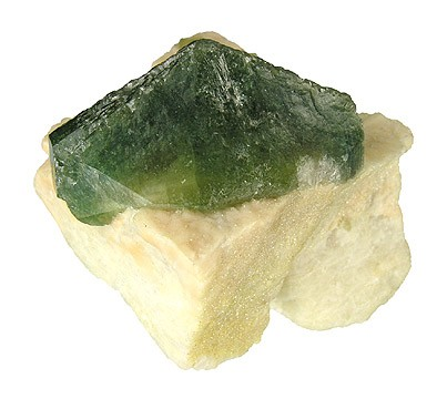 Apatite-(CaOH) Locality: Sapo mine, Conselheiro Pena, Doce valley, Minas Gerais, Southeast Region, Brazil (Locality at ) Size: 5.7 x 5.0 x 4.3 cm. Here we have a very unusual specimen of what was formerly referred to as Hydroxylapatite from the famous find at the Sapo mine in 2004. These crystals have a truly unique appearance both from the standpoint of habit and color. The crystals are flattened dipyramids with no prism whatsoever, and have a light yellow center with beautiful bluish-green edges. Most of the specimens from this find featured isolated crystals of Apatite-(CaOH) on tan colored Feldspar crystals. The largest crystal measures 3.3 cm across.